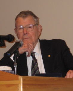 Thomas Schelling, Managing the World's Greenhouse Problem, Sharif University of Technology